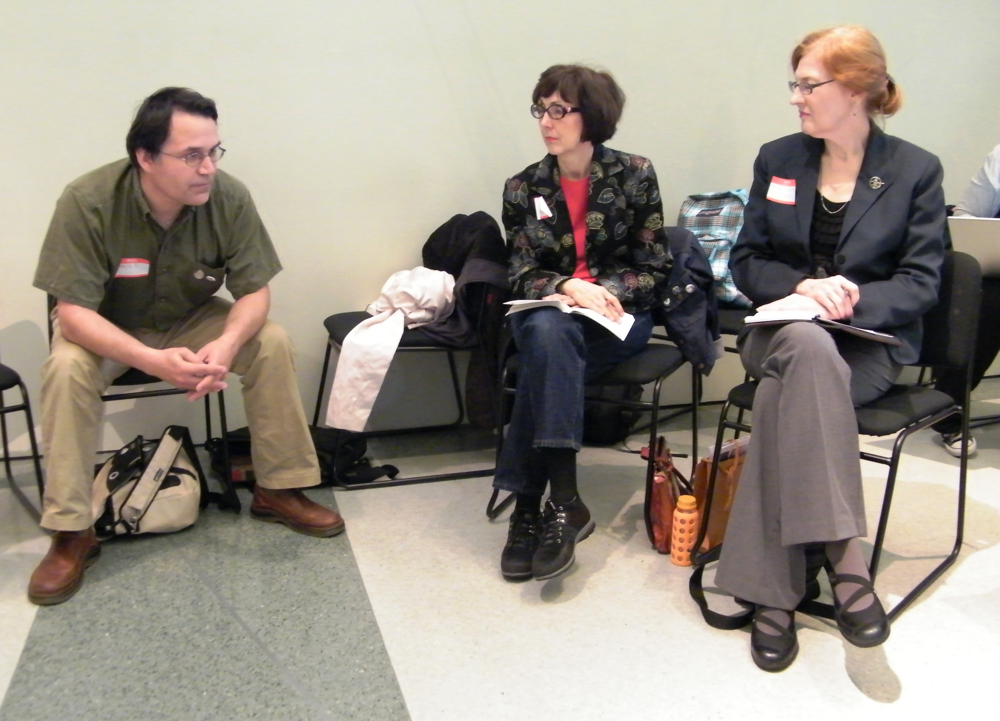 Staff from Terrain Gallery meet with Wikimedians to discuss collaborations with GLAMWIKI at GLAMcamp held at the New York Public Library.